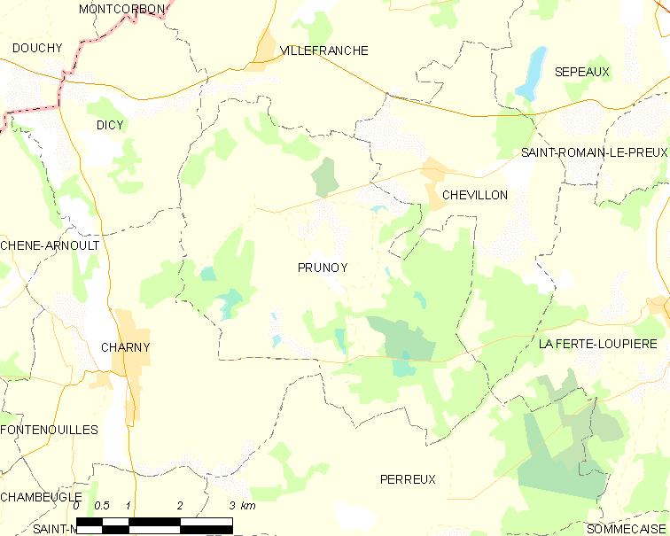 Map of French municipality Prunoy